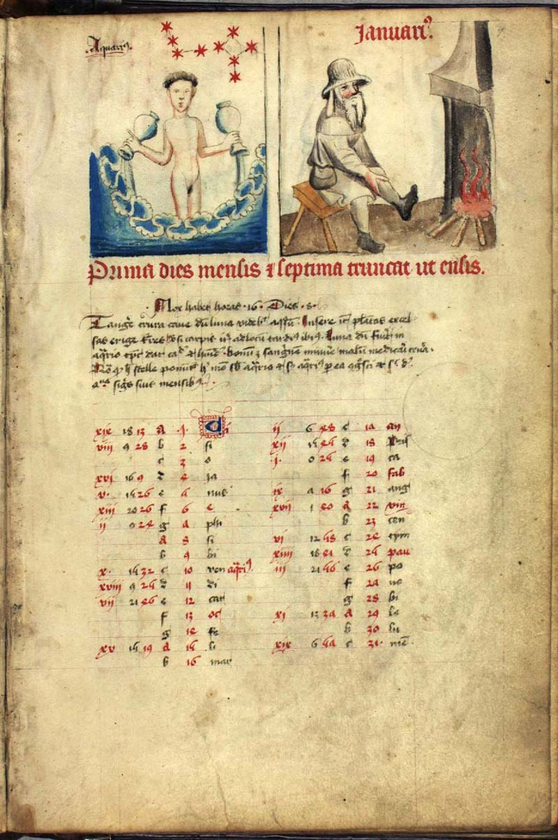 The Royal Library, the National Library and Copenhagen University Library: Manuscript Speculum humanae salvationis, "The Mirror of Human Salvation". GKS 79 2º: Speculum humanae salvationis, 7 recto (“Cisiojanus”-Calendar / January)